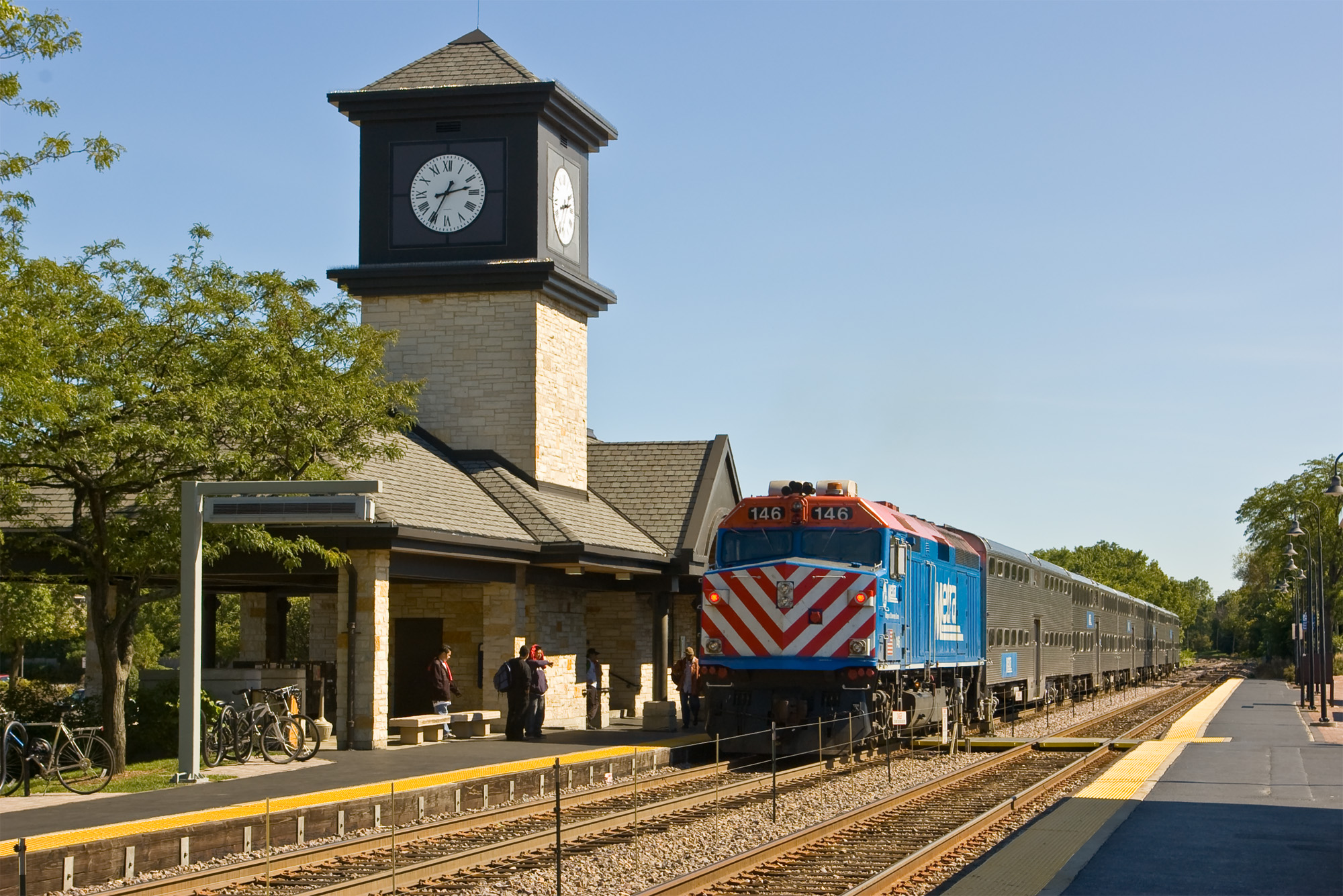 A southbound Metra train departs from Highland Park Metra Station on the Union Pacific North Line, Highland Park, Illinois